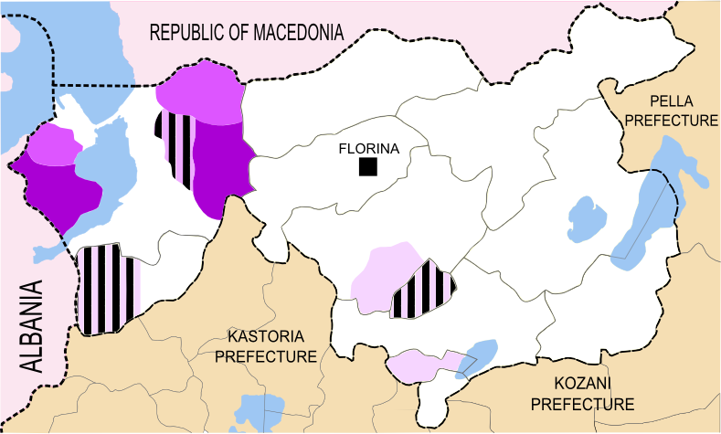 The Aromanian language is spoken by all age groups children & adults, in public, and by authorities The Aromanian language is spoken by people over 20, with people under the age of 20 having understanding of the language The Aromanian language is spoken by people over the age of 60 and in private STRIPES: Indicates that an Aromanian speaking population is present with unknown details as to knowledge of the language. Summary: A map of Florina Prefecture in Greece showing the distribution of Aromanian language speakers in the prefecture.